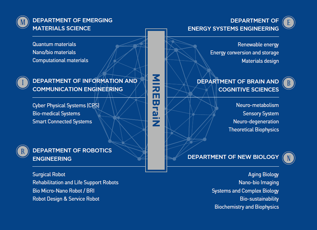 DGIST graduate school offers six programs